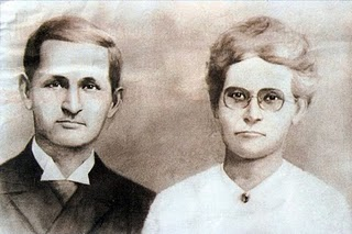 Dr. Ola Hanson (1864-1929) and his wife, missionaries in Burma